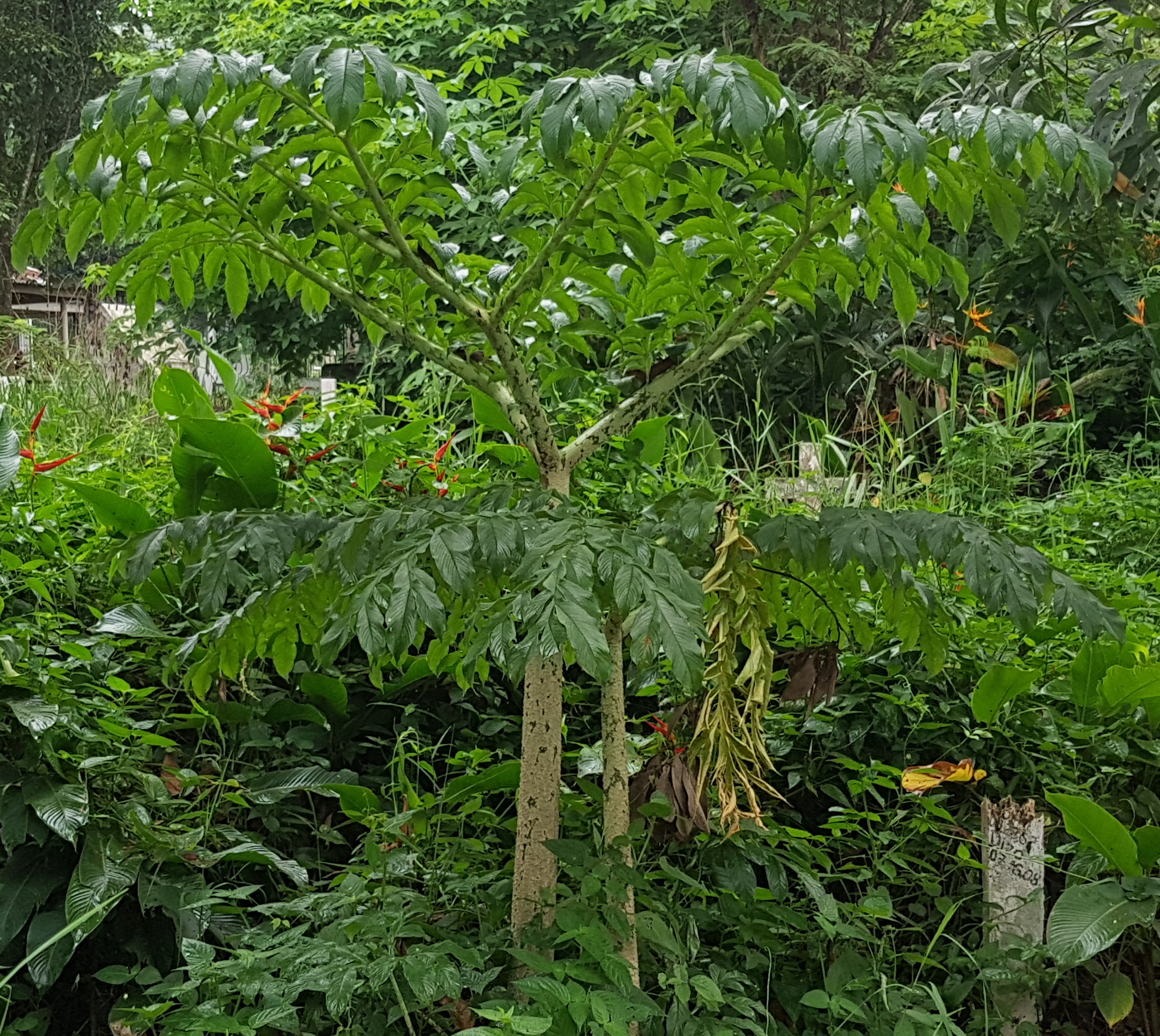 Amorphophallus paeoniifolius (Elephant's foot yam) from Mindanao, Philippines